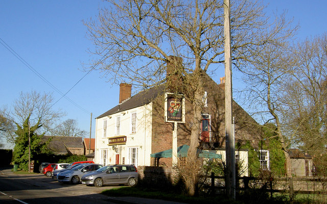 The Rose and Crown On Wooton Road Rangeworthy Court.